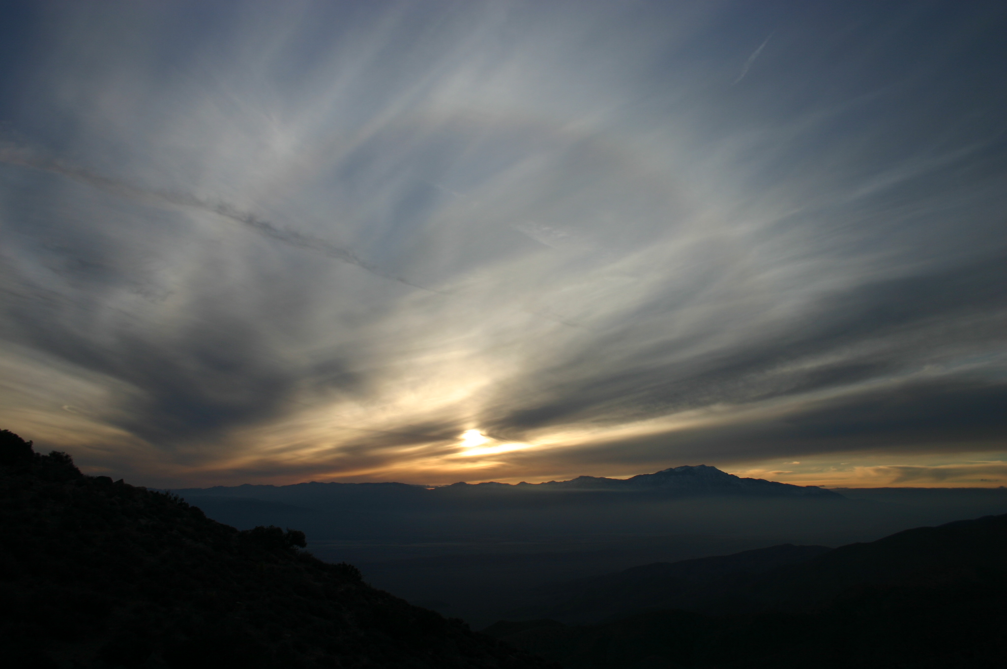 A solar halo during Sunset is clearly visible. Keys View, Joshua Tree National Park, California, USA.